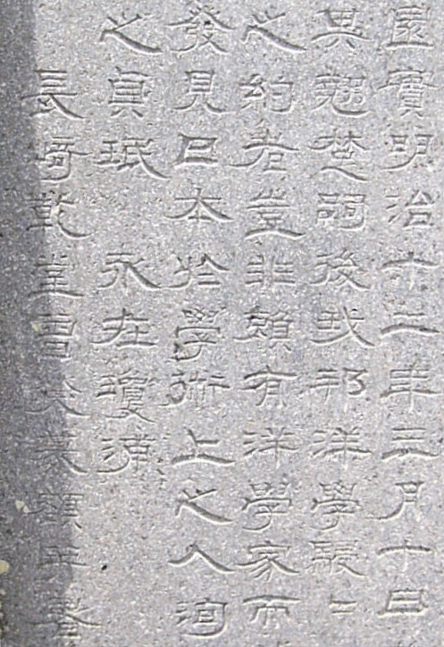 Monument to admire Philipp Franz von Siebold by KOSONE KENDO(1828-1885)(seal carving artist), ACE1880, detail, Nagasaki, Japan